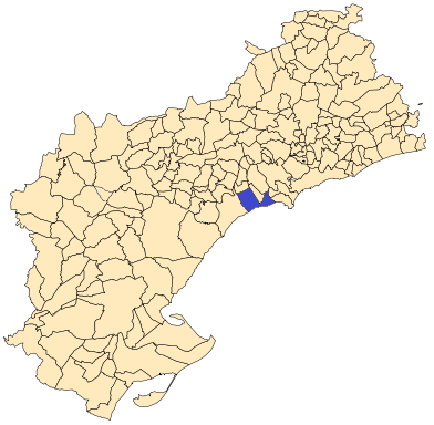 Cambrils